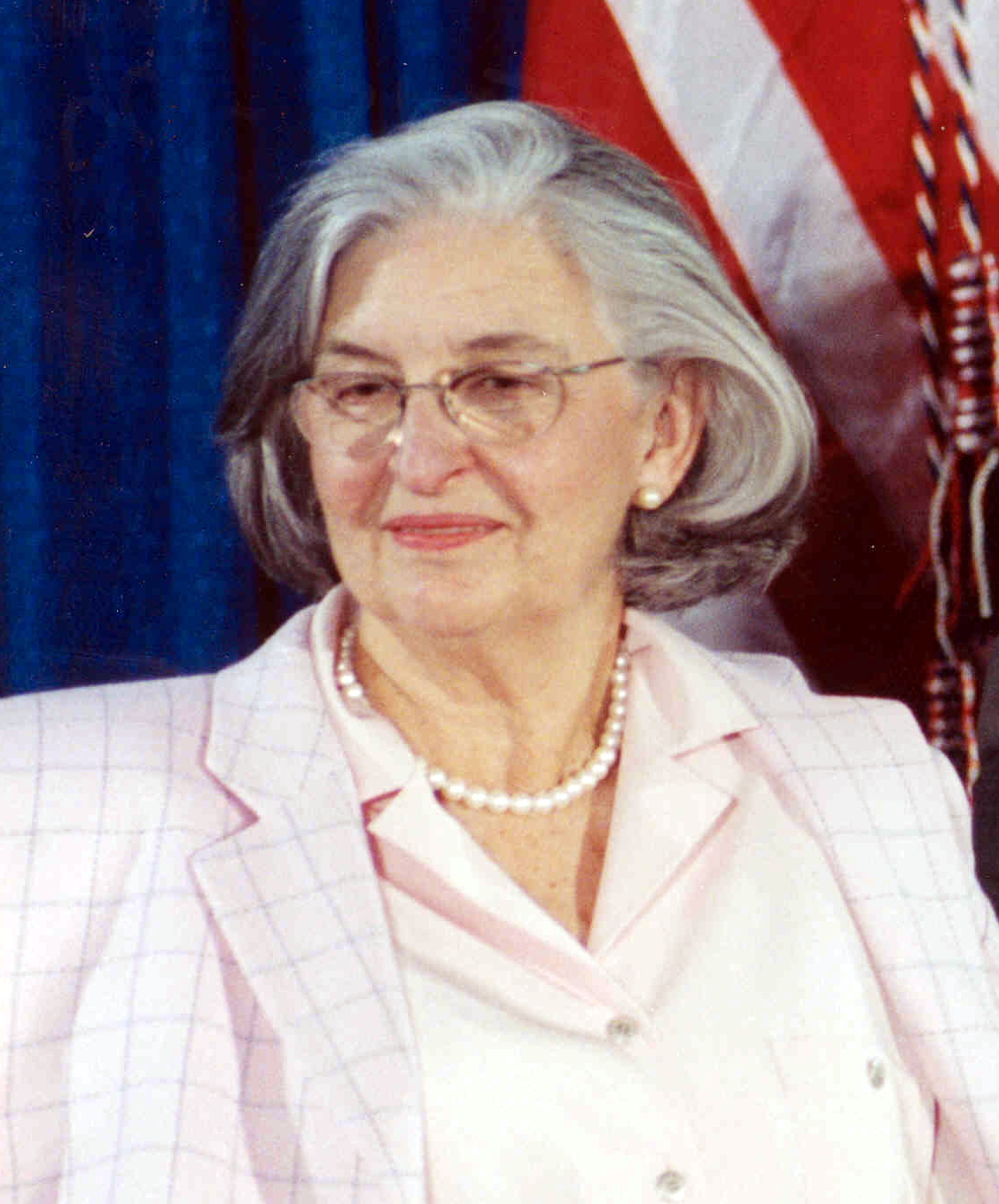 Mrs. Betty Bumpers, President Bill Clinton, and Senator Dale Bumpers during the cornerstone dedication ceremony for the Dale and Betty Bumpers Vaccine Research Center on June 9, 1999.